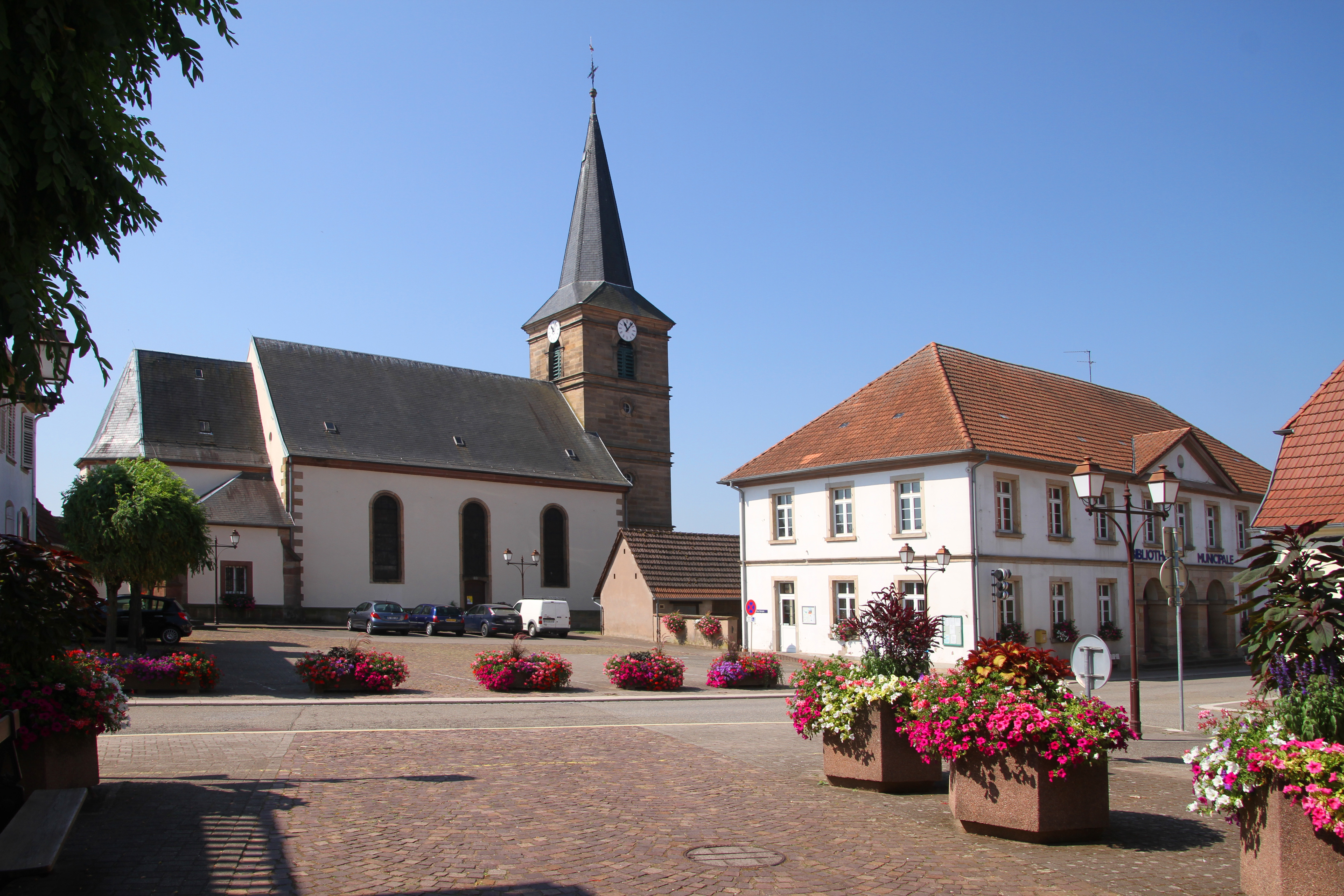 Church of the Assumption of the Virgin in Betschdorf